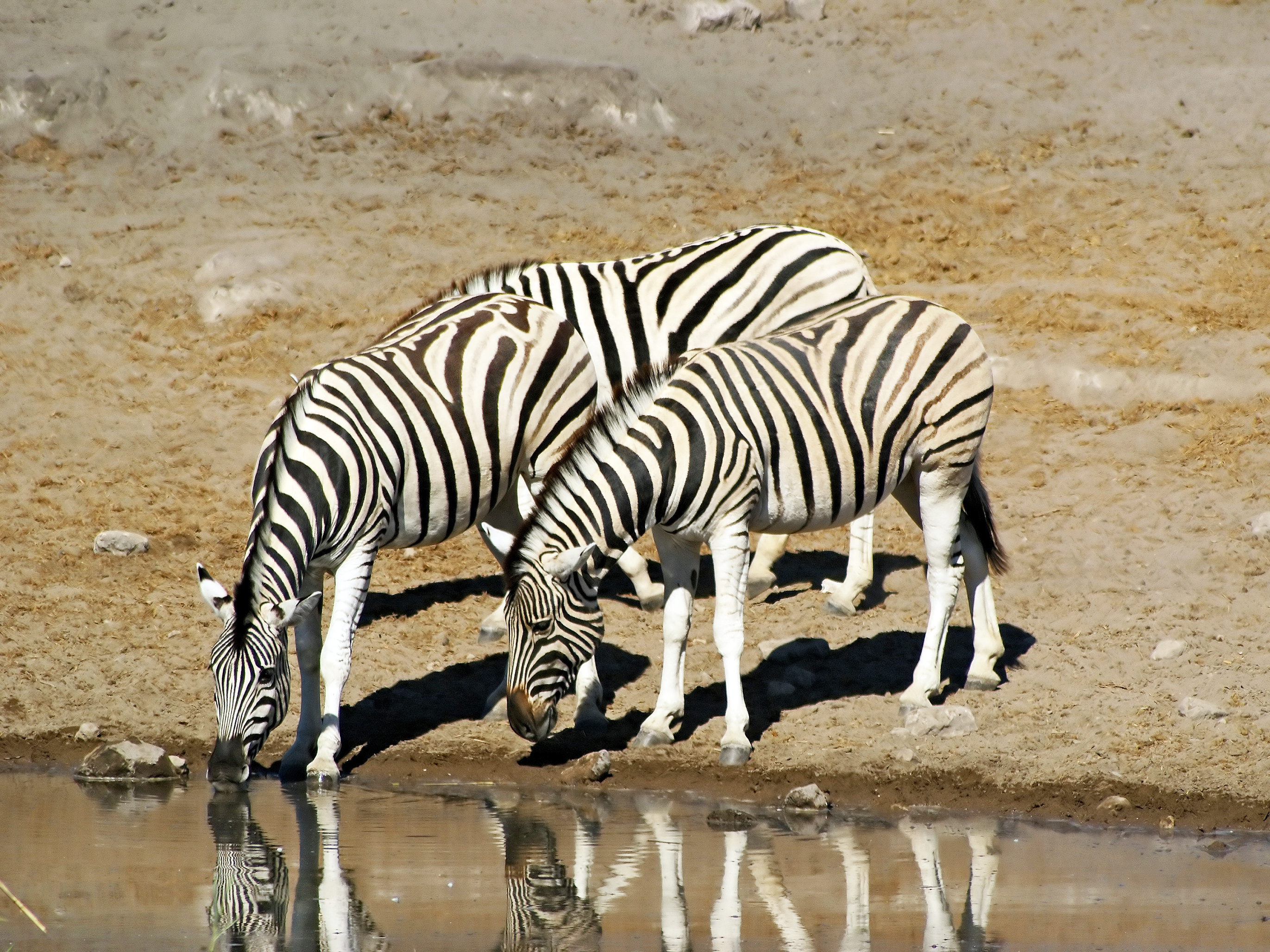 Damara Zebras at Chudop waterhole, Etosha, Namibia.